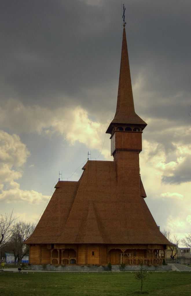 Saints Joachim and Anna Orthodox church, Mizil town, Prahova County, Romania. Built 2007.